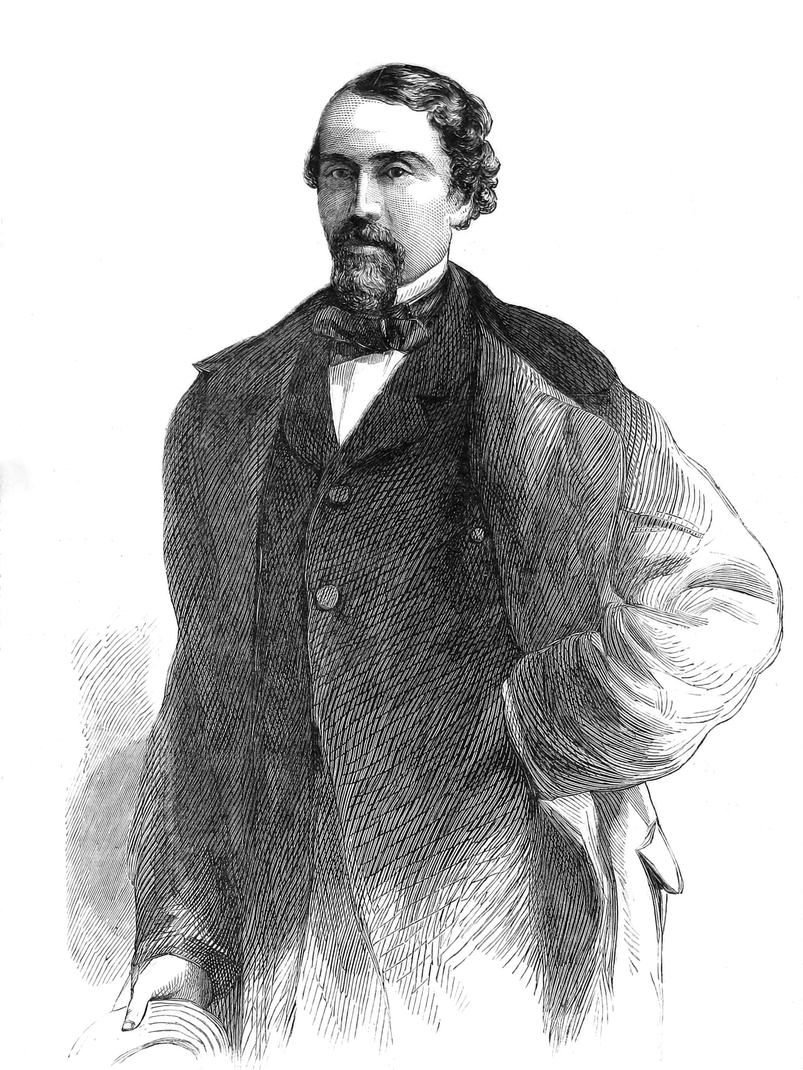 Portrait of French champagne merchant Charles Heidseick (1820-1871) made during his life time in the 1850's. Image used in Champagne ads in the US during the 1850's.